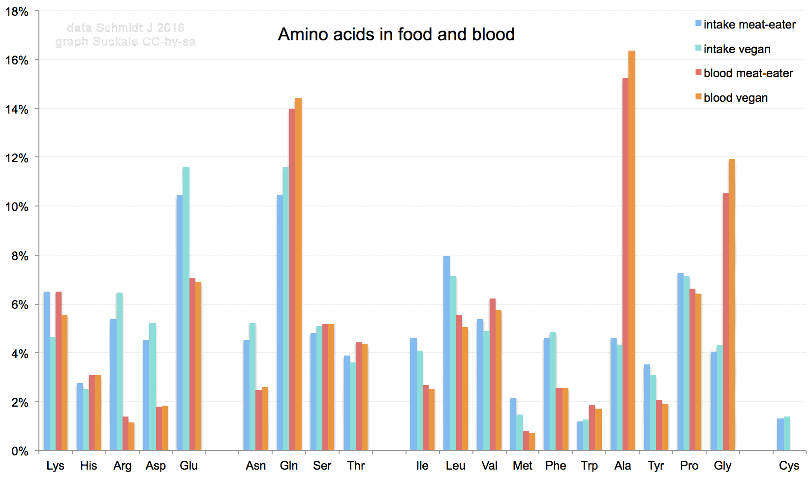 Amino acids in food and blood ; Schmidt et al. 2016 have analyzed both the amino acid composition of human food and measured the resulting mix of amino acids in blood serum. Intake values in grams per day and plasma values in μmol/L (micromoles per liter) have been converted to % of total in each category. The paper differentiates between meat-eaters, vegetarians, and vegans. The chart only shows meat-eaters versus vegans because the differences there are biggest (despite being small overall). The data does not distinguish between Asp/Asn and Glu/Gln in food. Since according to Sosulski 1990 these are usually similar, the chart uses the simplification that they are present in equal quantities. Also, the analysis did unfortunately not measure Cys serum levels, so these were left blank.